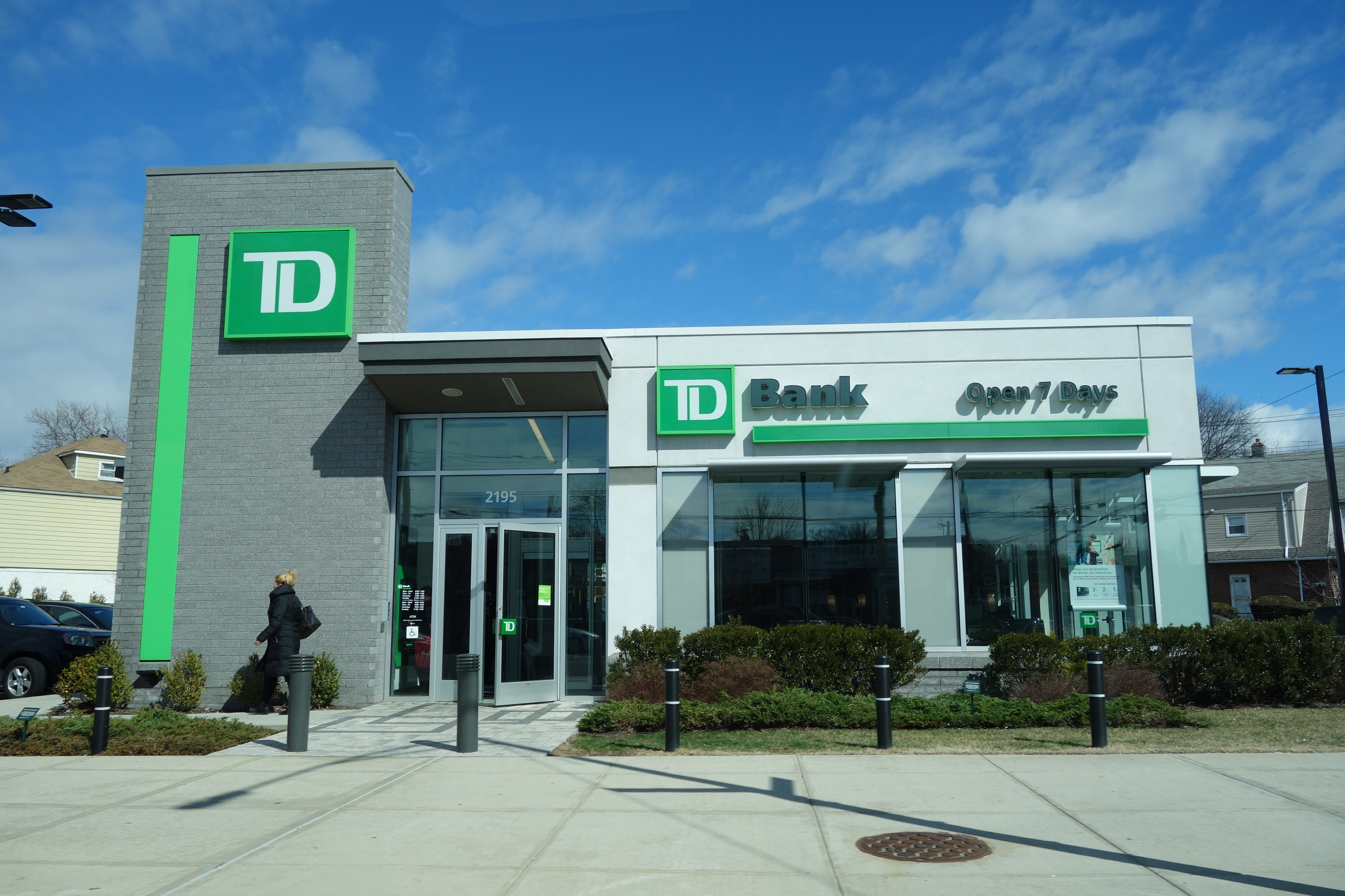 The TD Bank at Flatbush Avenue and Avenue O in Marine Park / Flatlands, Brooklyn.